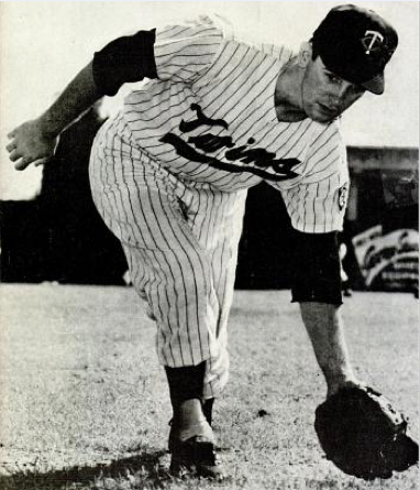 Minnesota Twins second baseman Bernie Allen in a 1963 issue of Baseball Digest.